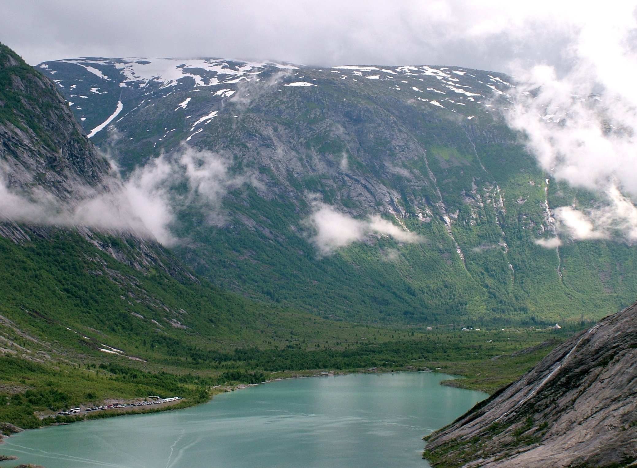 View on Nigardsbrevatnet from Nigardsbreen, Norway